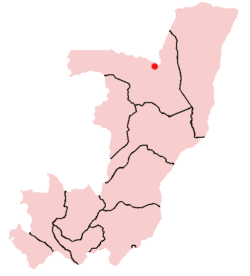 Ouesso, Republic of the Congo Location Map; created with the GIMP.